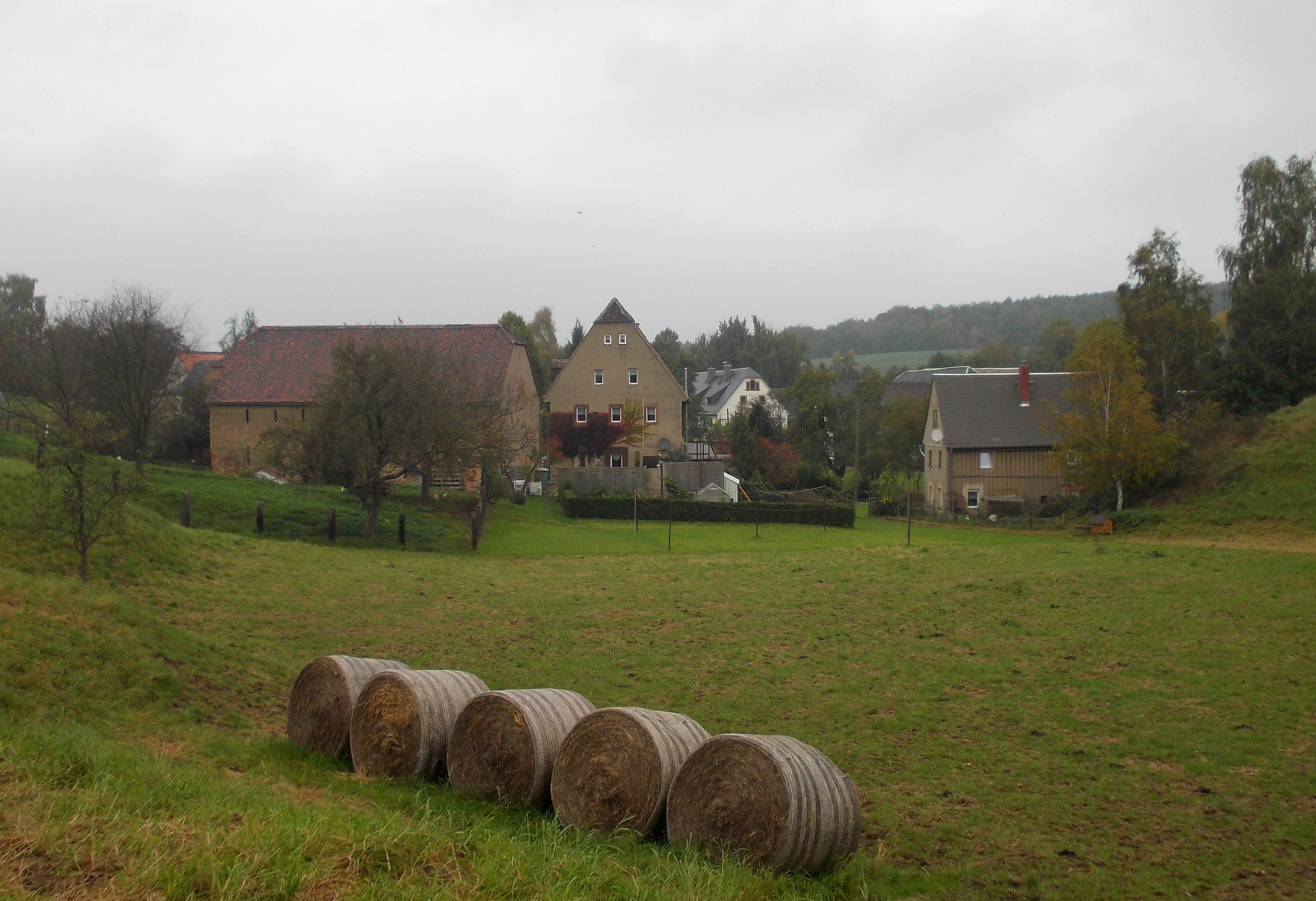 View of a part of Wittgendorf (Rochlitz, Mittelsachsen district, Saxony)